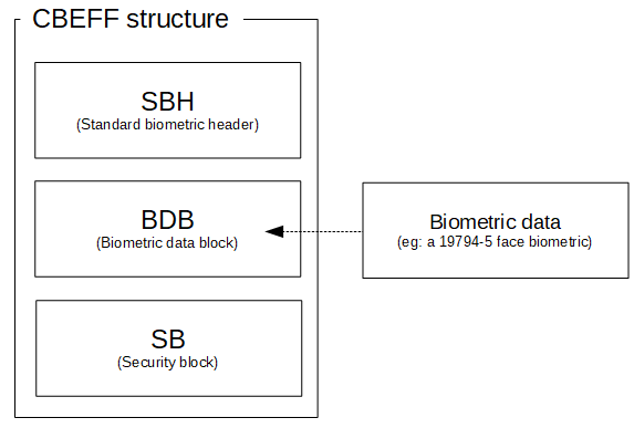 Overview of the CBEFF file format as defined by the ISO/IEC 19785 standard.